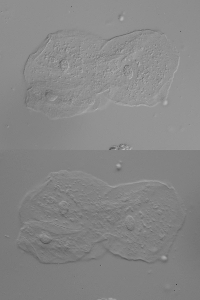 2 DIC 180° rotated pictures; inside mouth cells